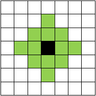 The von Neumann neighborhood of range 2